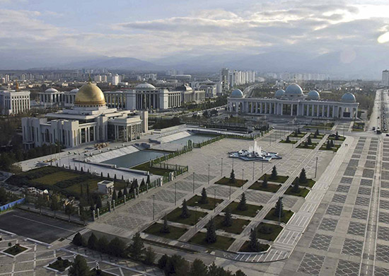 The Independence Square in Ashgabat.